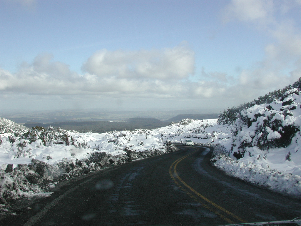 Ohakune Mountain Road, Mount Ruapehu in winter, looking down south.